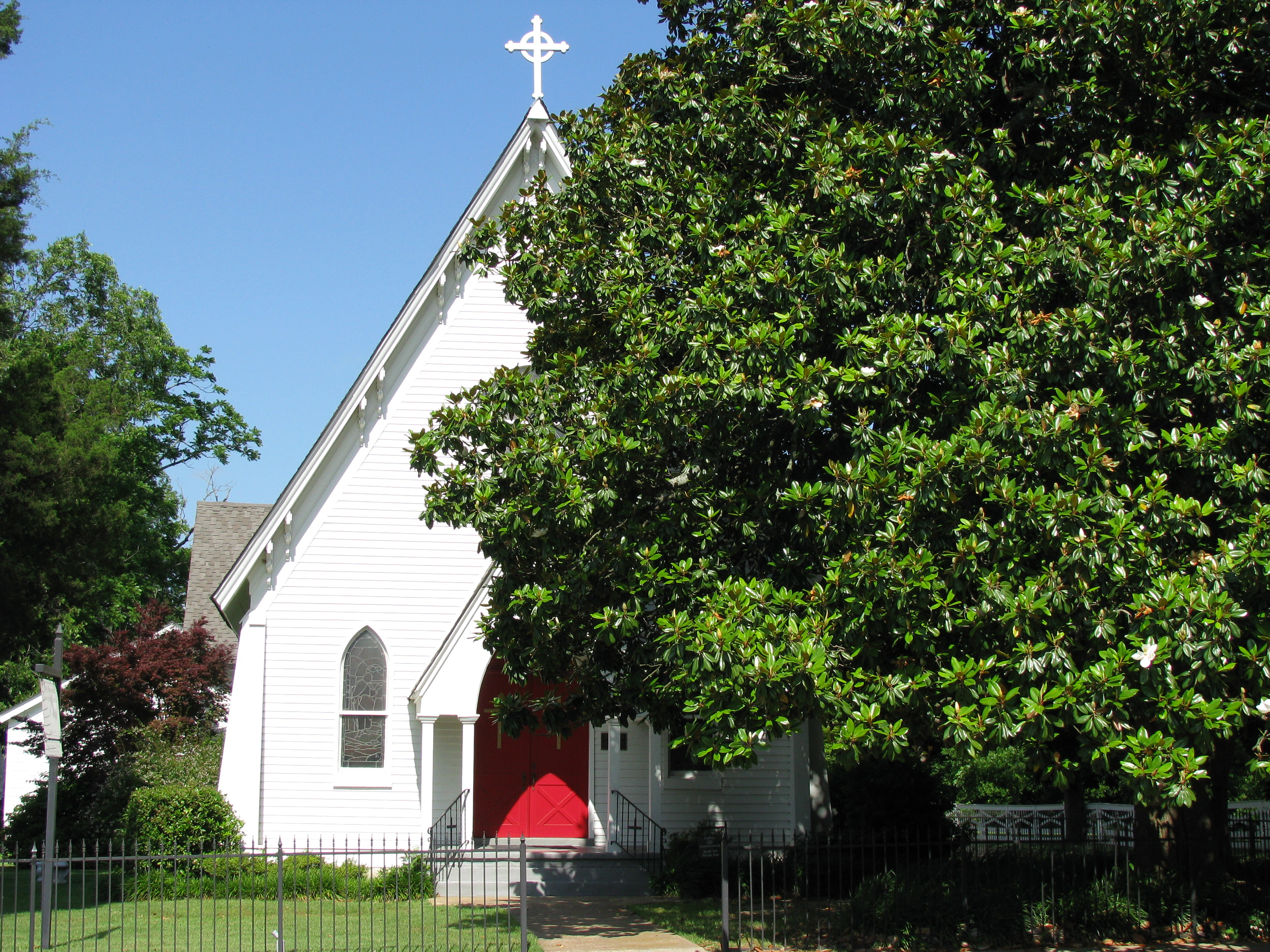 Holy Innocents Episcopal Church, Como (Panola County), Mississippi.